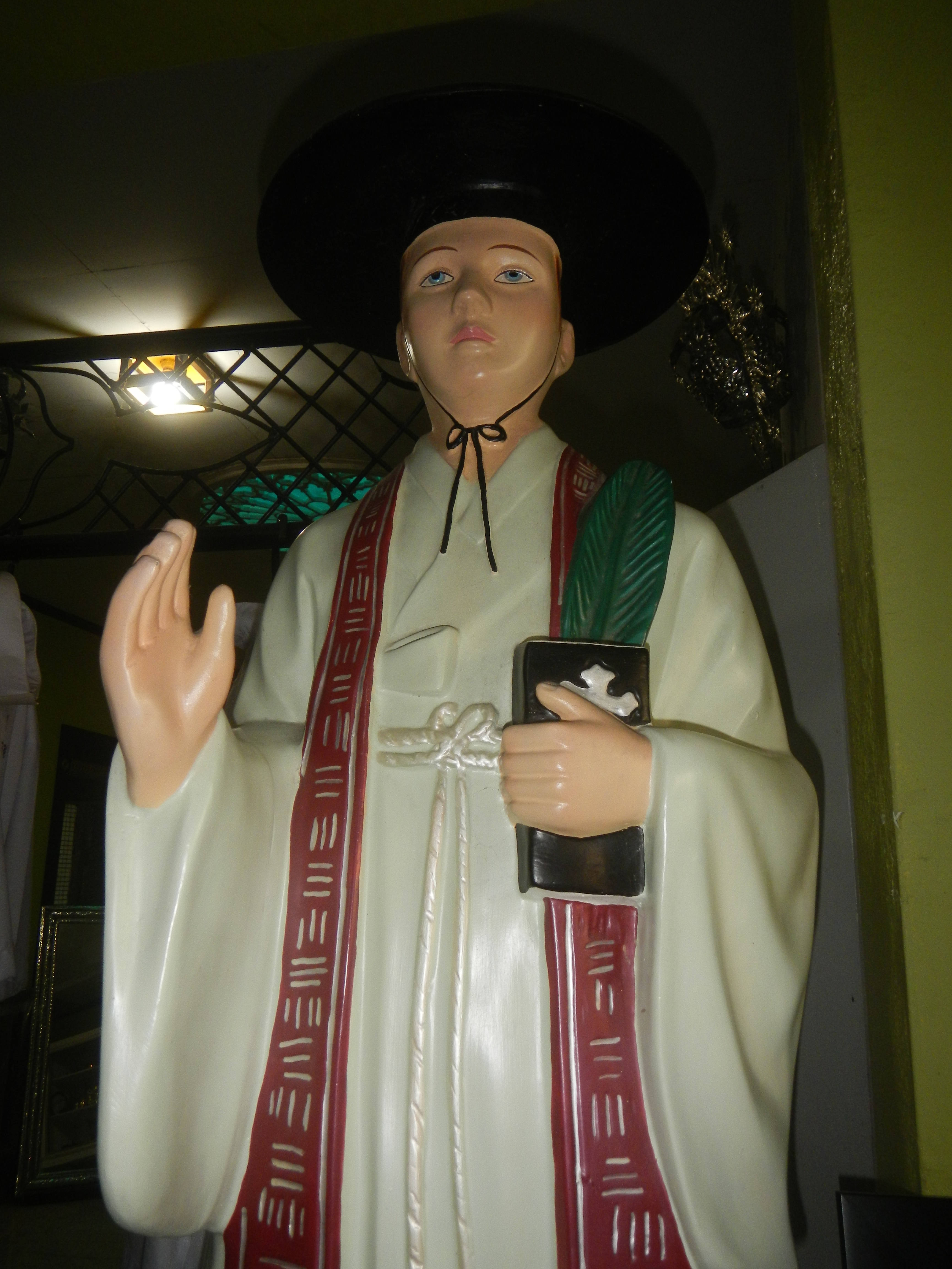 Interior and Parish Convent, Rectory and December, 2016 Wedding at the Saint Ildephonsus of Toledo Church (San Ildefonso, Bulacan) in Barangay Poblacion, San Ildefonso, Bulacan Bulacan Province, along San Ildefonso-Doña Remedios Trinidad, Bulacan Road (accessed along and from the Maharlika Highway (Cagayan Valley Road, San Rafael-San Ildefonso, Bulacan section) of Pan-Philippine Highway, also known as the Maharlika "Nobility/freeman" Highway or Asian Highway 26, Cagayan Valley Road).